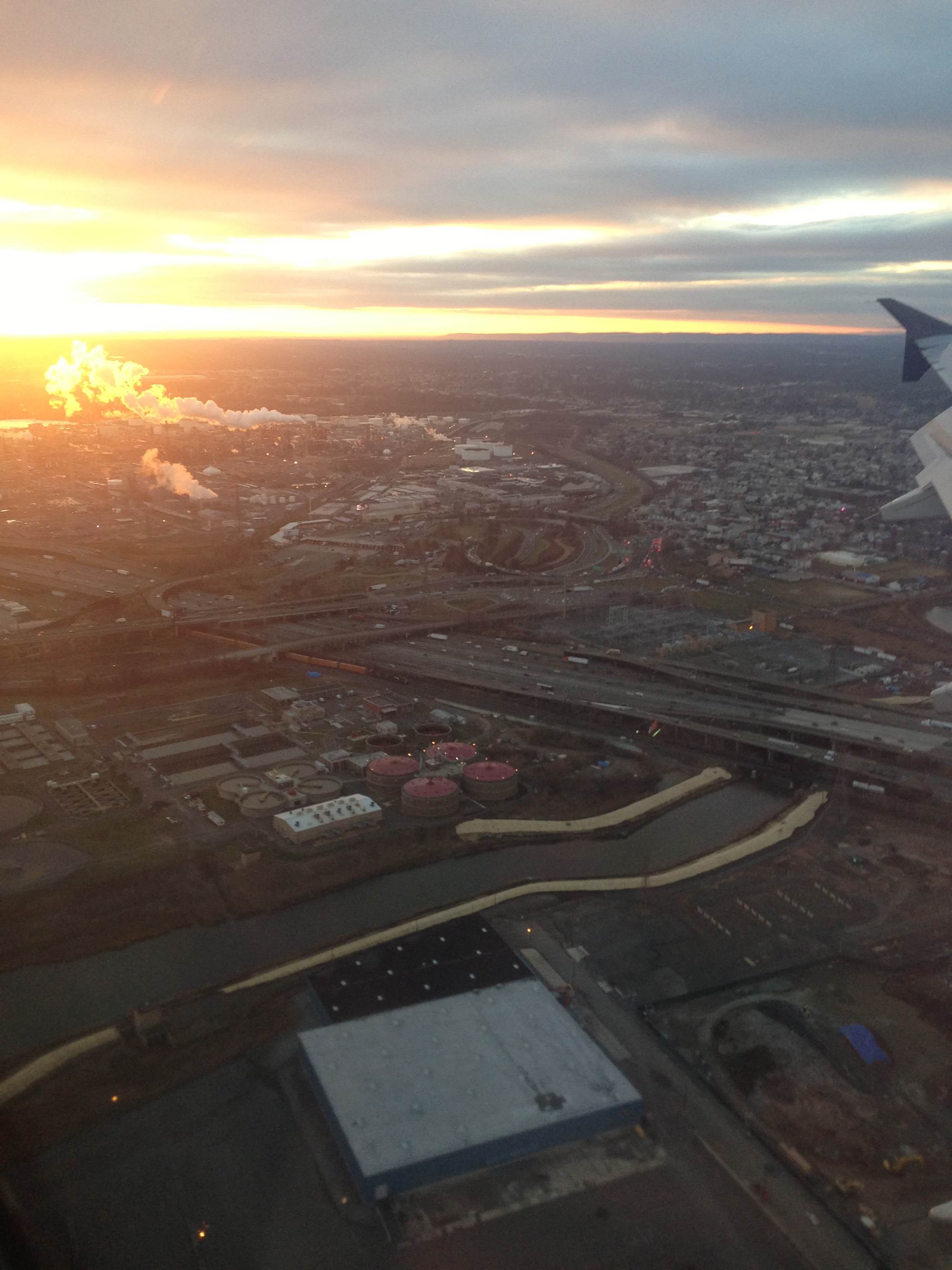 View of the lower Elizabeth River, New Jersey Turnpike (Interstate 95) Exit 13 and Union Freeway (Interstate 278) in Elizabeth, New Jersey from a plane heading for Newark Airport